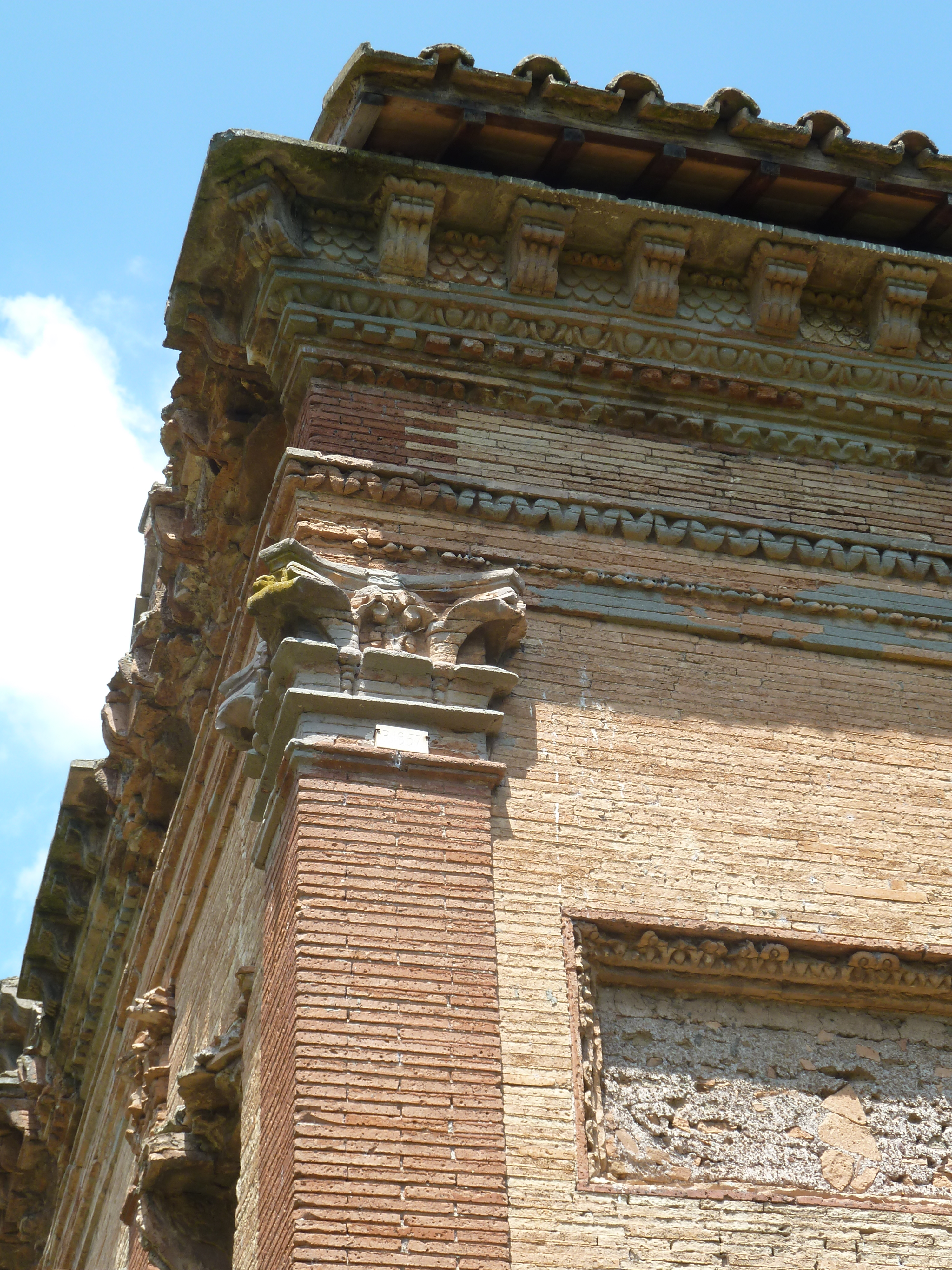 TombeViaLatina